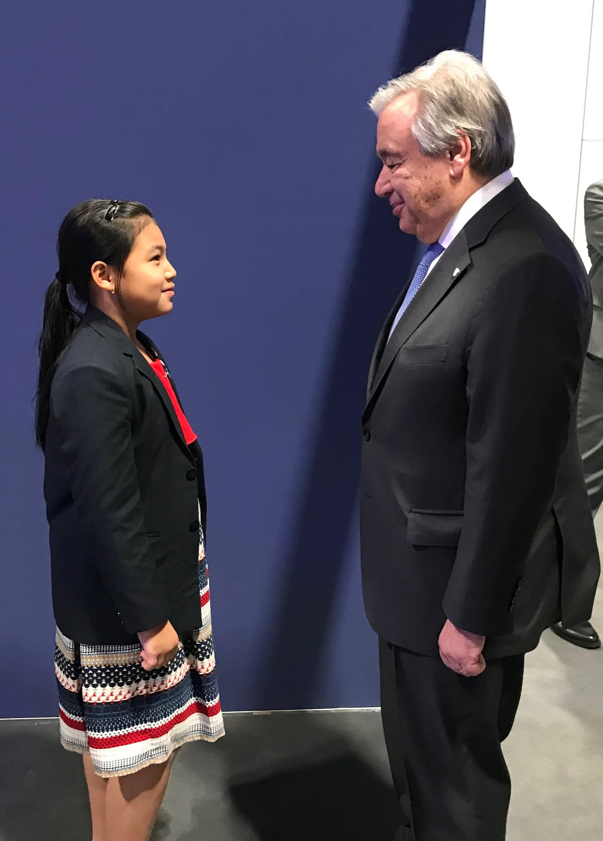 Licypriya Kangujam with UN Secretary General Antonio Guterres at the United Nations Climate Conference 2019 (COP25) in Madrid, Spain on 12 December 2019.